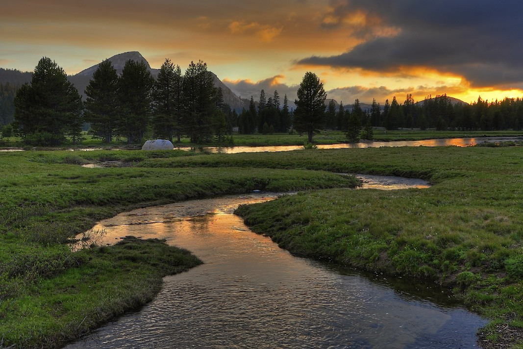 Budd Creek at full flow, with the Tuolumne River rampaging behind, Fairview Dome on the left.